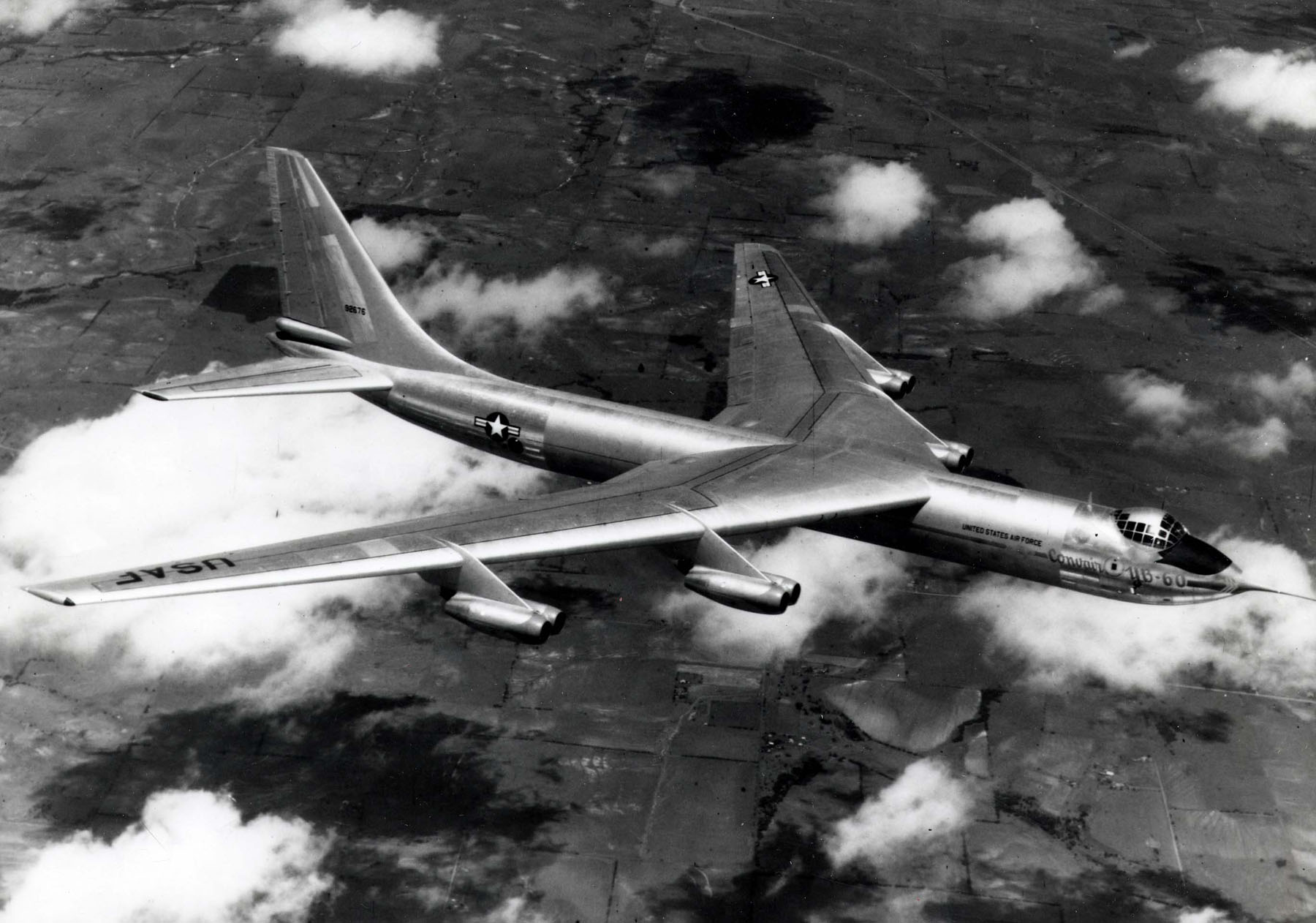 Convair YB-60 (serial number S/N 49-2676) in flight over clouds.